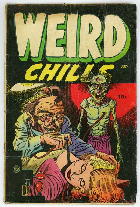 Cover of Weird Chills #1, (July 1954)